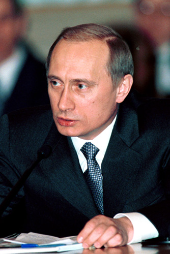 THE PRESIDENT HOTEL, MOSCOW. Acting President Vladimir Putin at a meeting of the Russian Government's Advisory Council on Foreign Investment.